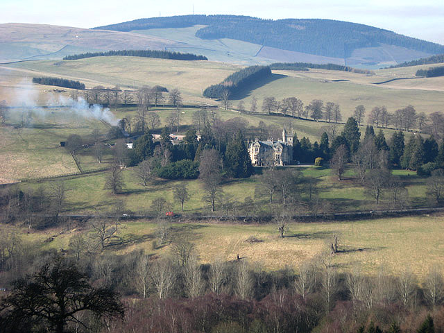 Glenmayne House A large Baronial house on an elevated site overlooking the River Tweed. Built in 1866 for John Murray, a wool merchant and pelt-monger. (Source: Borders and Berwick, An Architectural Guide by Charles Alexander Strang). Viewed in February from a hillside on the opposite side of the River Tweed. The hill in the far background is Meigle Hill.